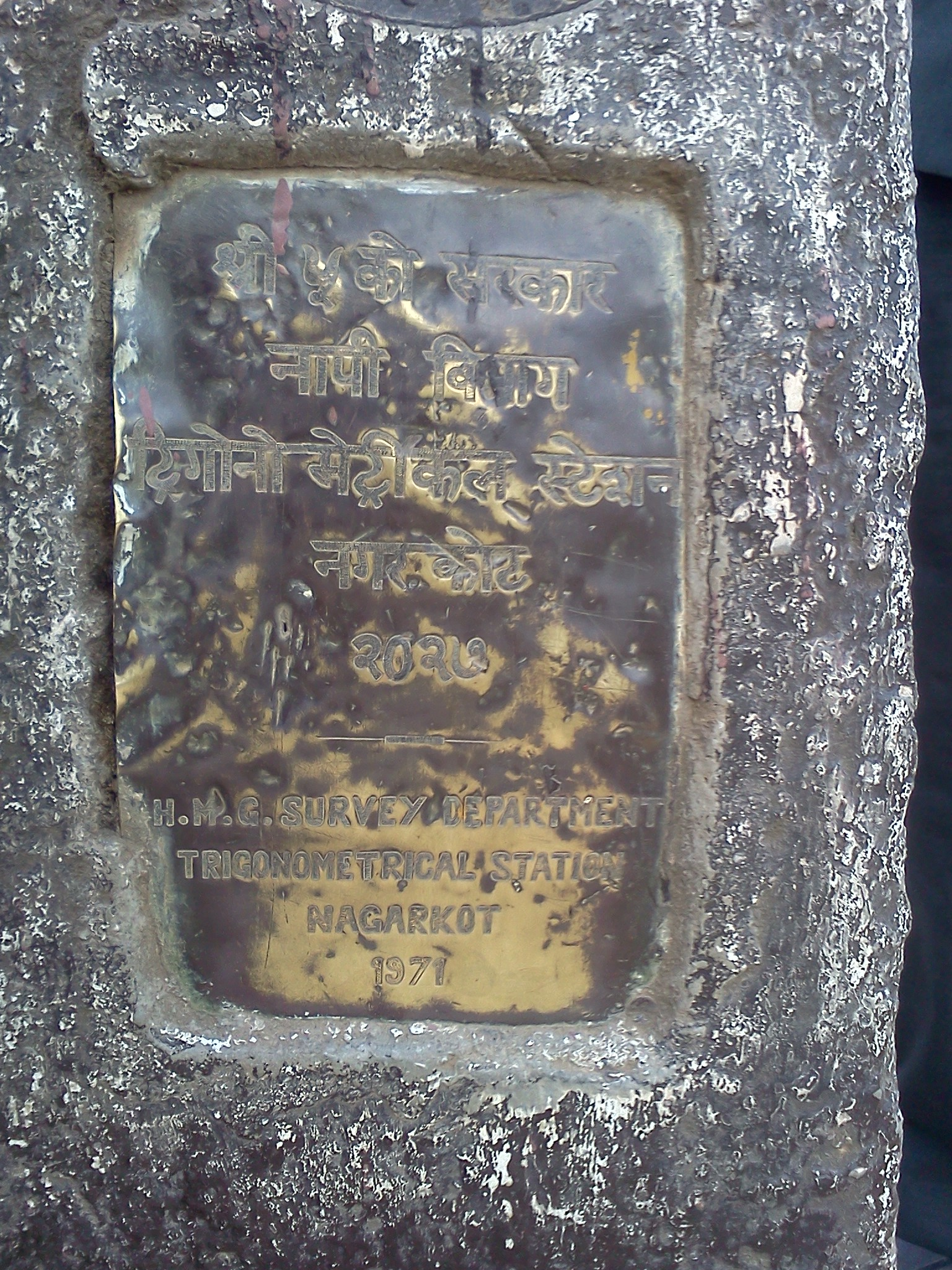 Script on Trigonometric Survey Pole Nagarkot Nepal